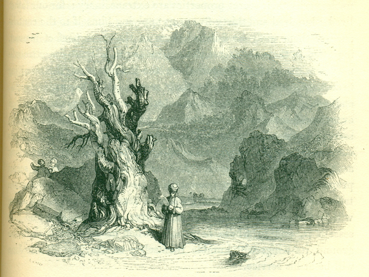 Woodcut Illustration to The Story of Hasan of El-Basrah from the Arabian Nights